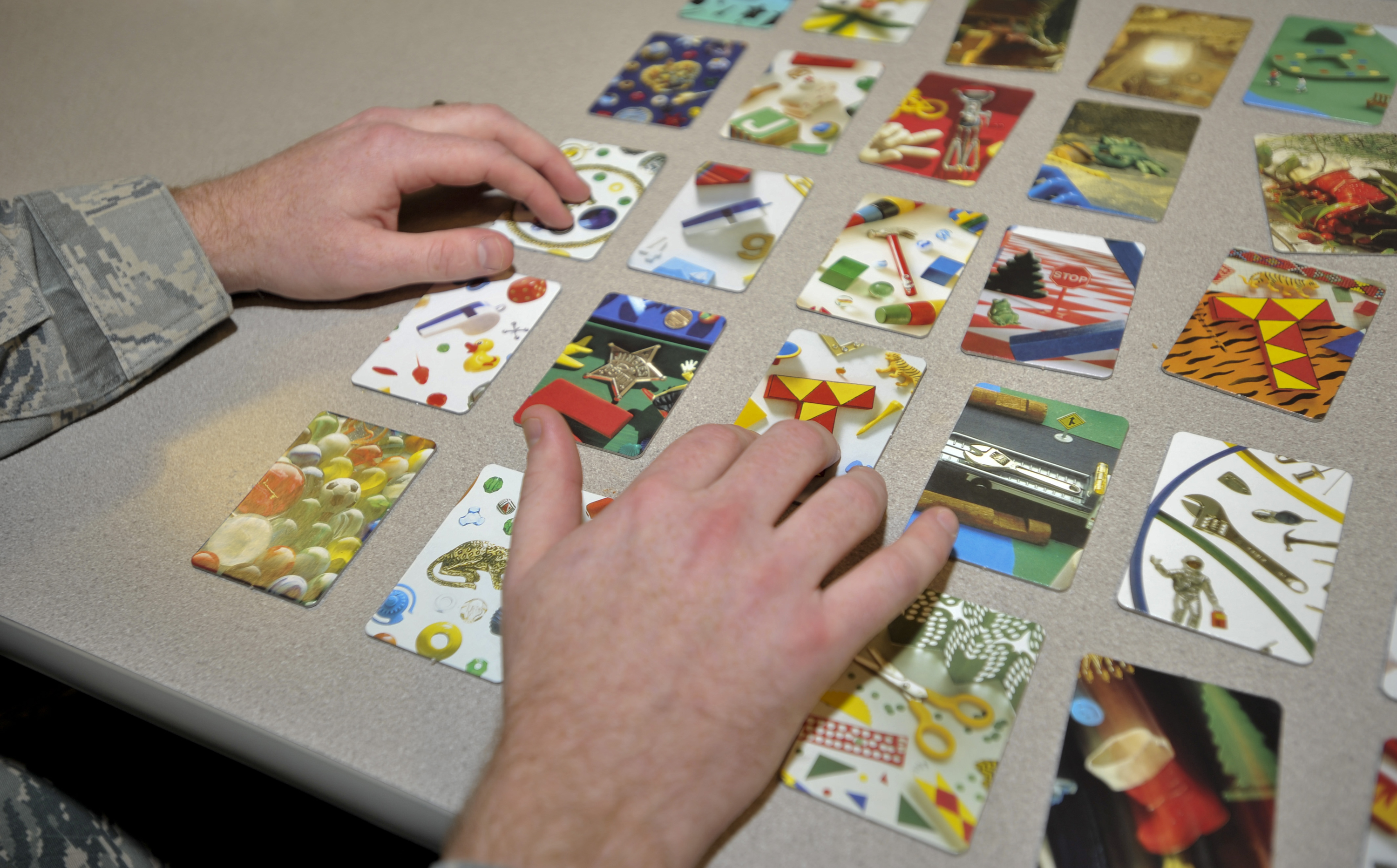 ELMENDORF AIR FORCE BASE, Alaska -- A patient in the Traumatic Brain Injury clinic plays a game of“I Spy” to help with cognitive functions they he may have lost after receiving a brain injury Nov. 18. Simple games are played so patients can build the skills they may have lost to determine whether they are suited to go back to work be medically discharged. (U.S. Air Force photo/Senior AirmanTinese Treadwell)